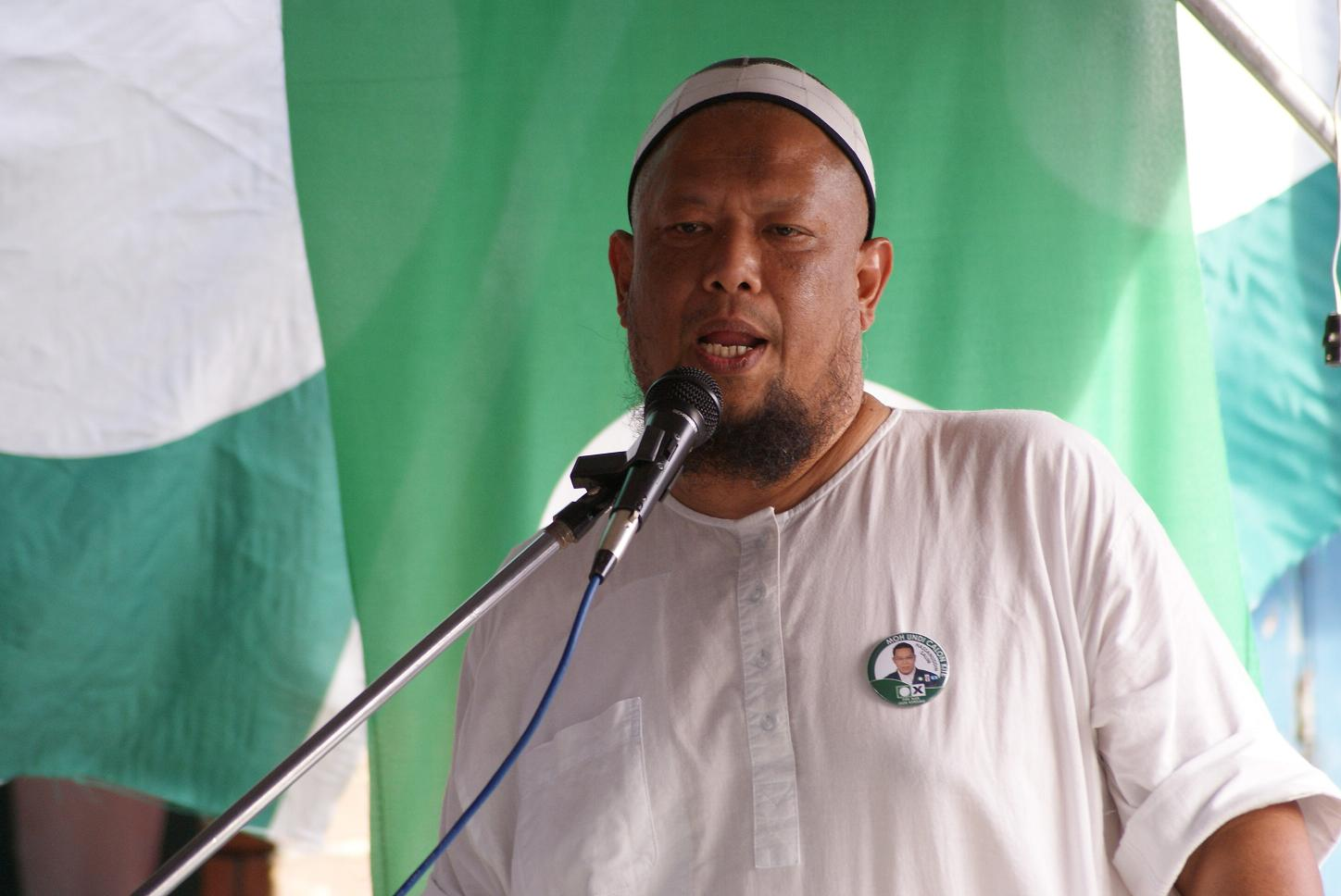 Bob Lokman memberi ceramah agama